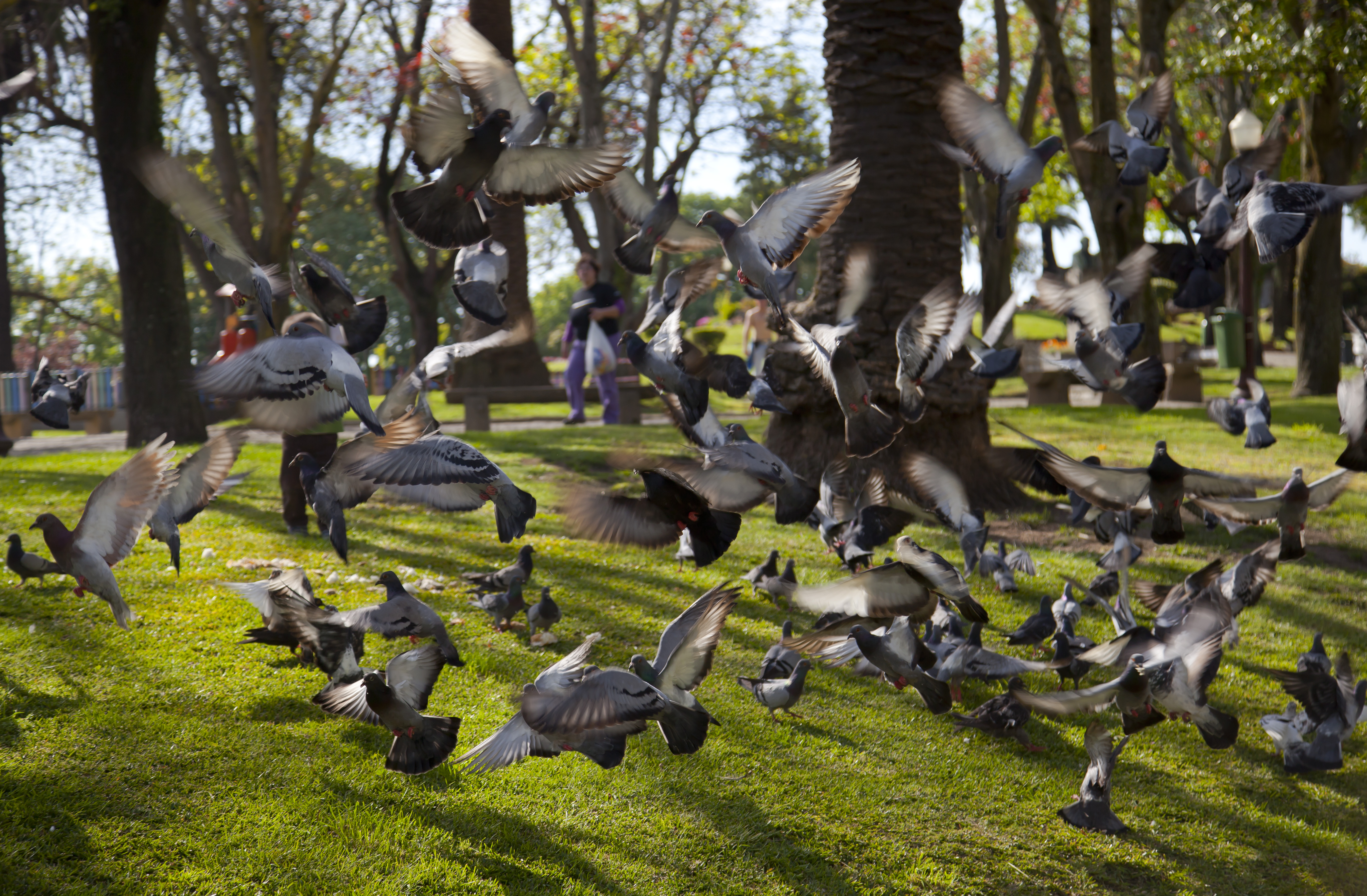 Jardim do Morro, Porto, Portugal